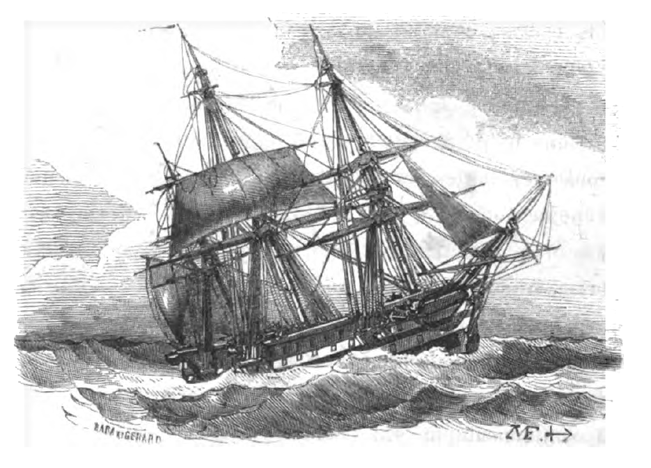 A ship Heaving to. The ship appears to be an Océan class ship of the line. Illustration from La Marine, by Pacini, p.180.